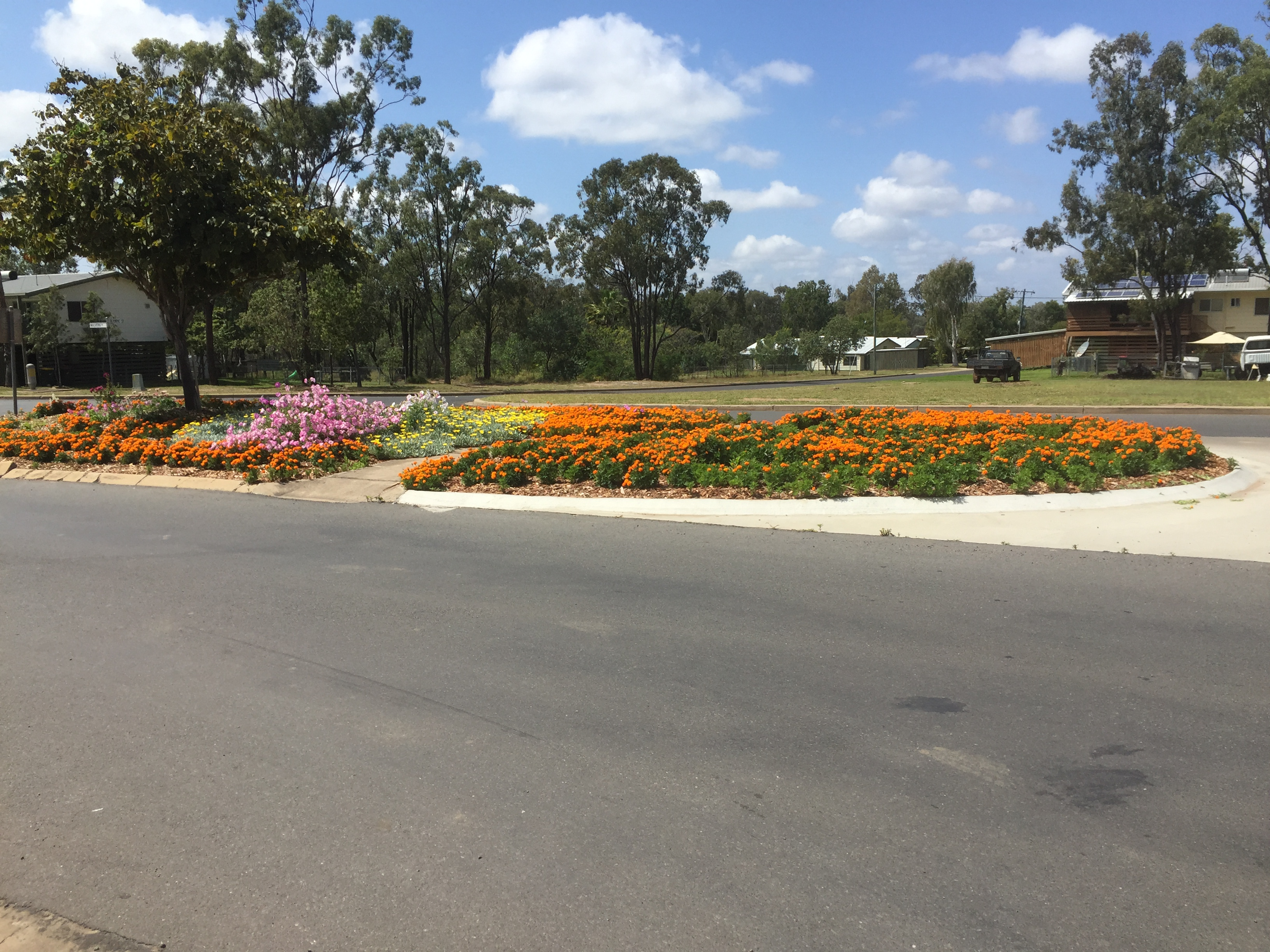 Tieri with flowers planted in the median strip, September 2016